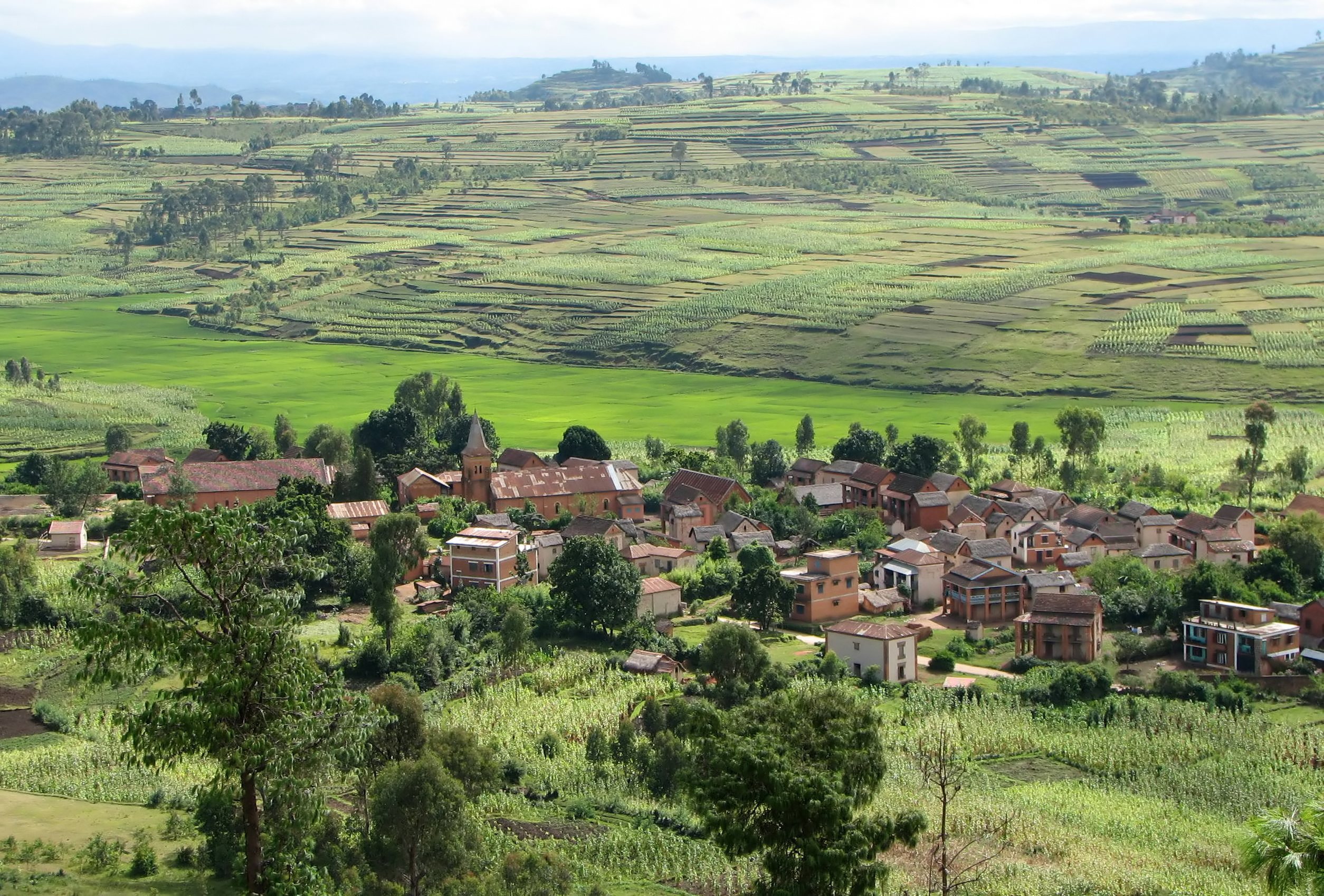 Village of Belazao near Lake Tritriva, Antananarivo Province, Madagascar